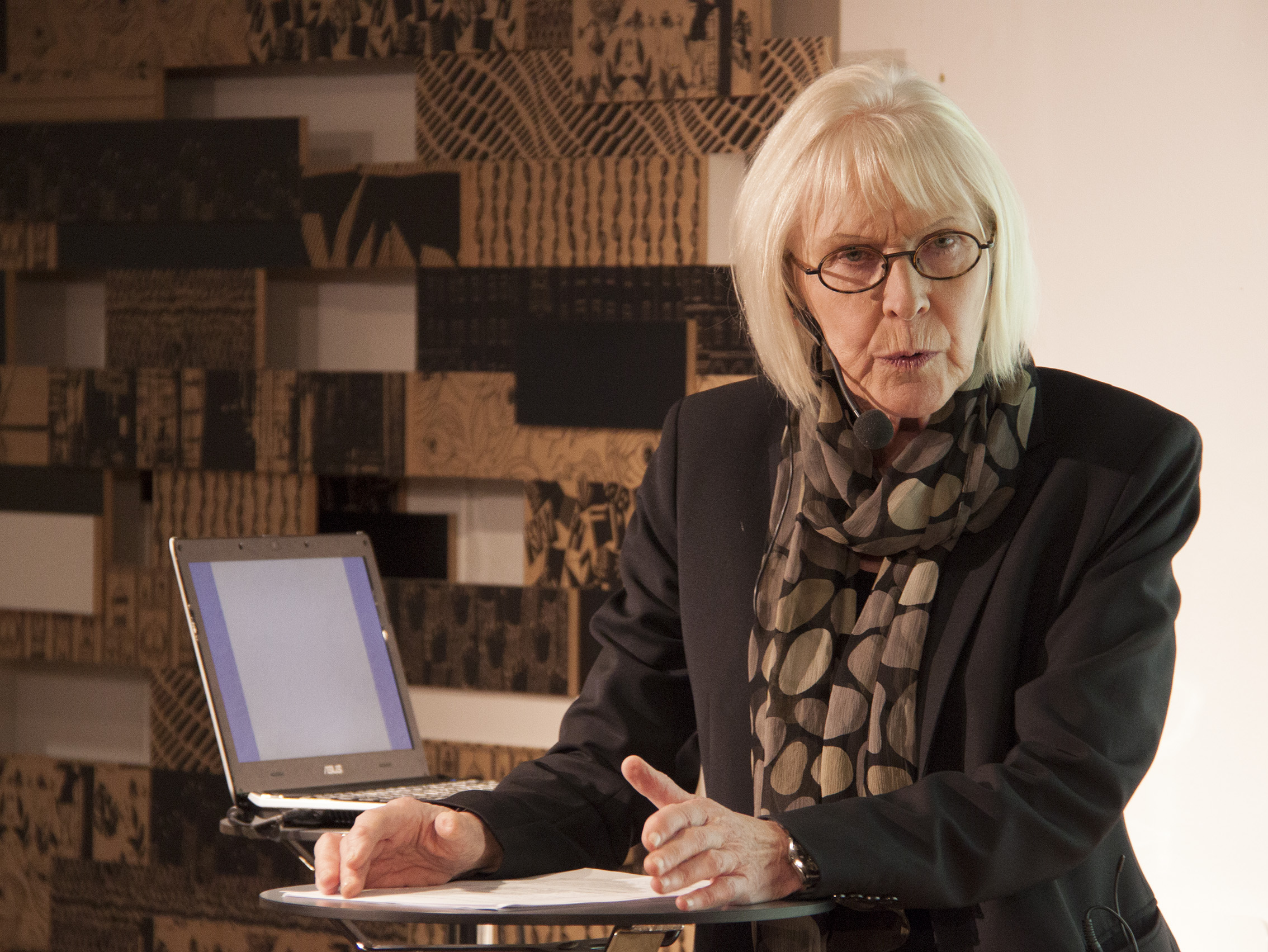 Siv Strömquist at Kulturhuset in Stockholm.